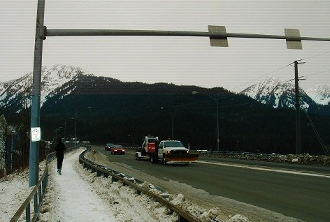 A jogger heads west up the Juneau-Douglas Bridge's bike path toward Douglas Island as east bound traffic arrives in mainland Juneau on March 3, 2011